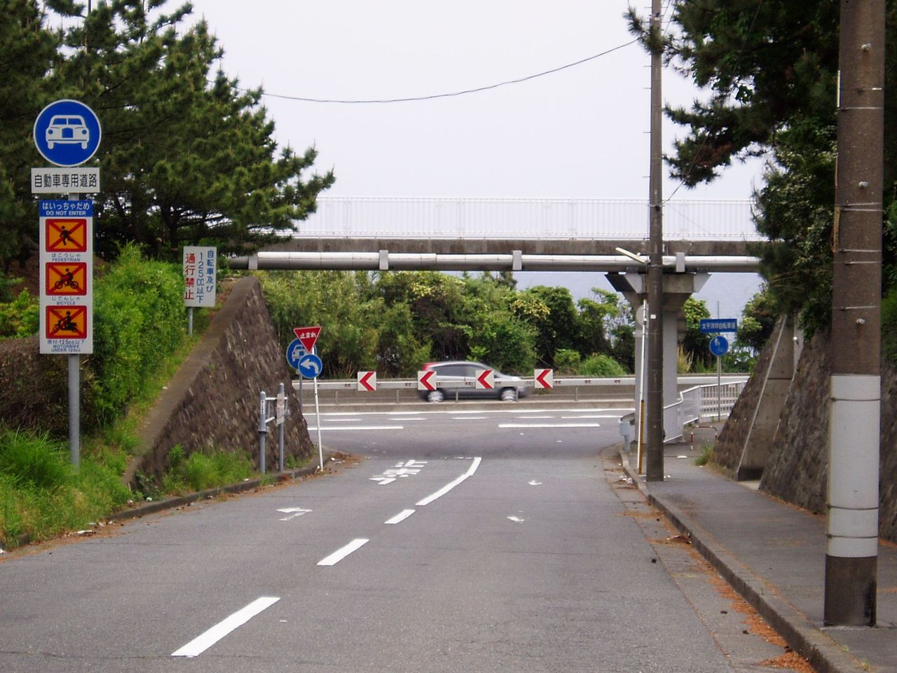 Seisho Bypass road Oisoko Interchange (for Tokyo)